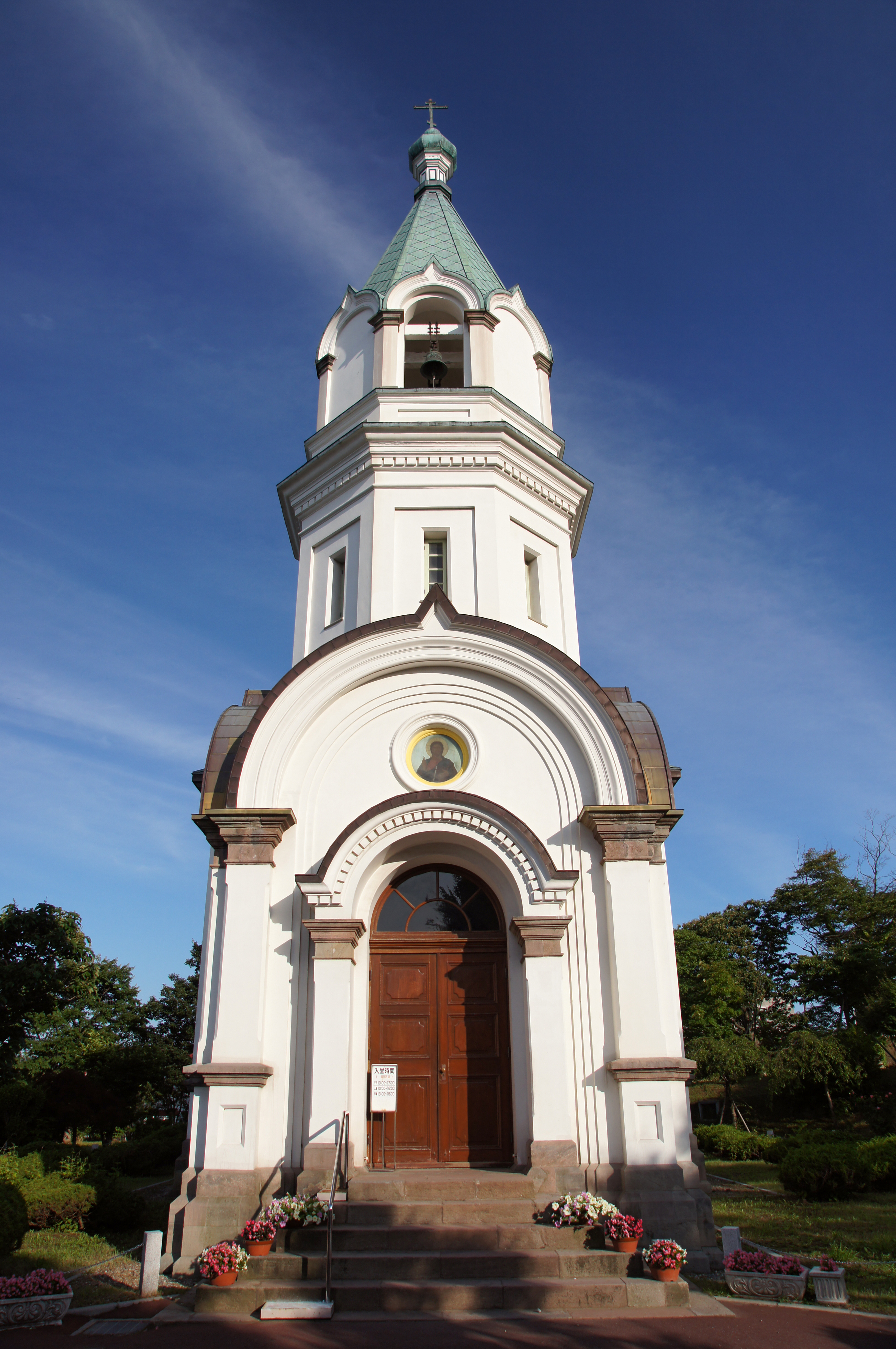 Hakodate Orthodox Church in Hakodate, Hokkaido prefecture, Japan